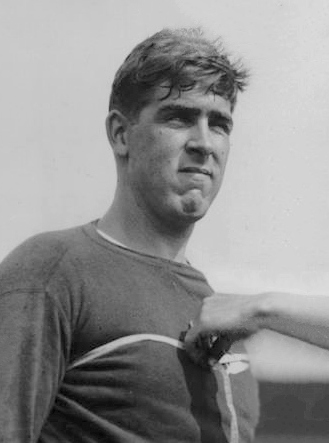 1936 Press Photo Gordon Dunn Olympic discus tryouts threw 156' 2 1/4""